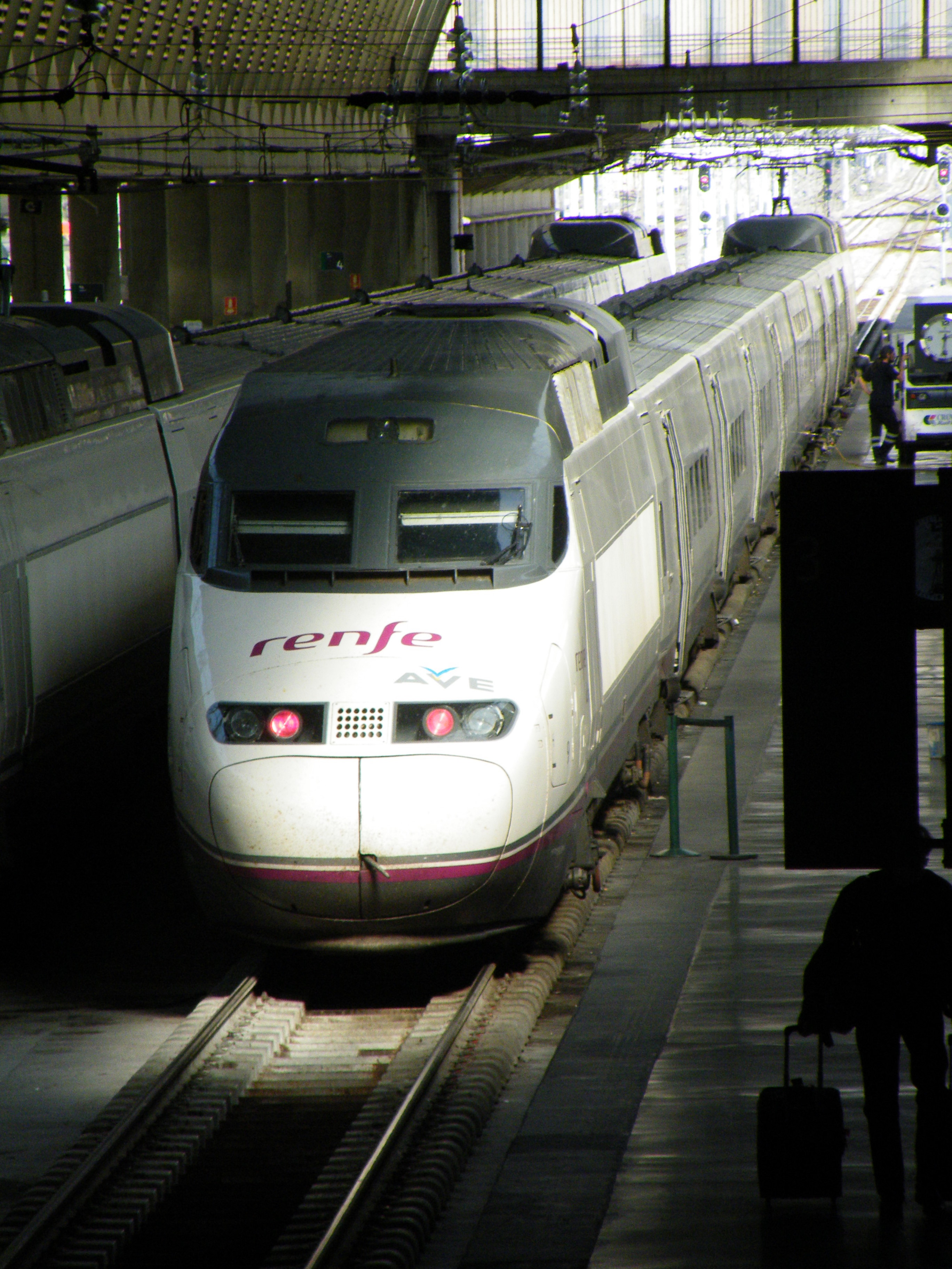 A class 100 Ave in the Seville-Santa Justa station (Spain).